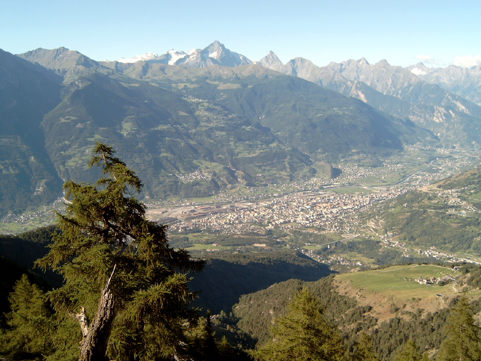 City of Aosta seen from Pila